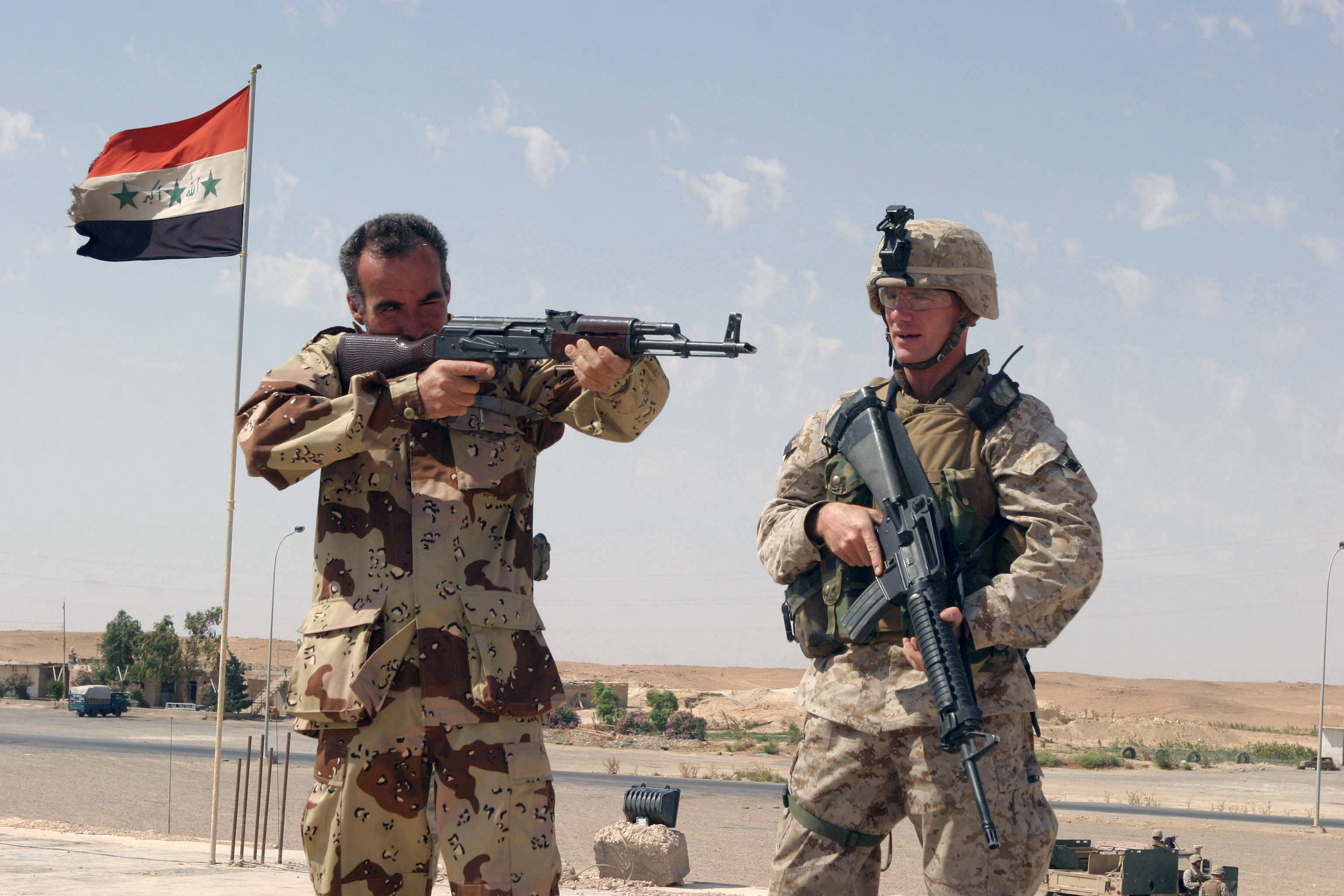 US Marine Corps (USMC) First Lieutenant (1LT) Lee, India (I) Company (Co), 3rd Battalion (BN), 4th Marine Regiment (7th Marine Regiment), 1st Marine Division (MAR DIV), Marine Corps Air Ground Combat Center (MCAGCC) Marine Air Ground Task Force Training Center (MAGTFTC) 29 Palms, California (CA), observes an Iraqi Civil Defense Corps (ICDC) Soldier utilizing the "hasty sling" technique while sighting an Iraqi Tabuk 7,62 mm assault rifle, on the roof at the Rawah ICDC Command Post outside of Anah, Iraq, during a Security and Stabilization Operation (SASO) in the Al Anbar Province of Iraq during Operation IRAQI FREEDOM. Location: ANAH, AL ANBAR IRAQ (IRQ)